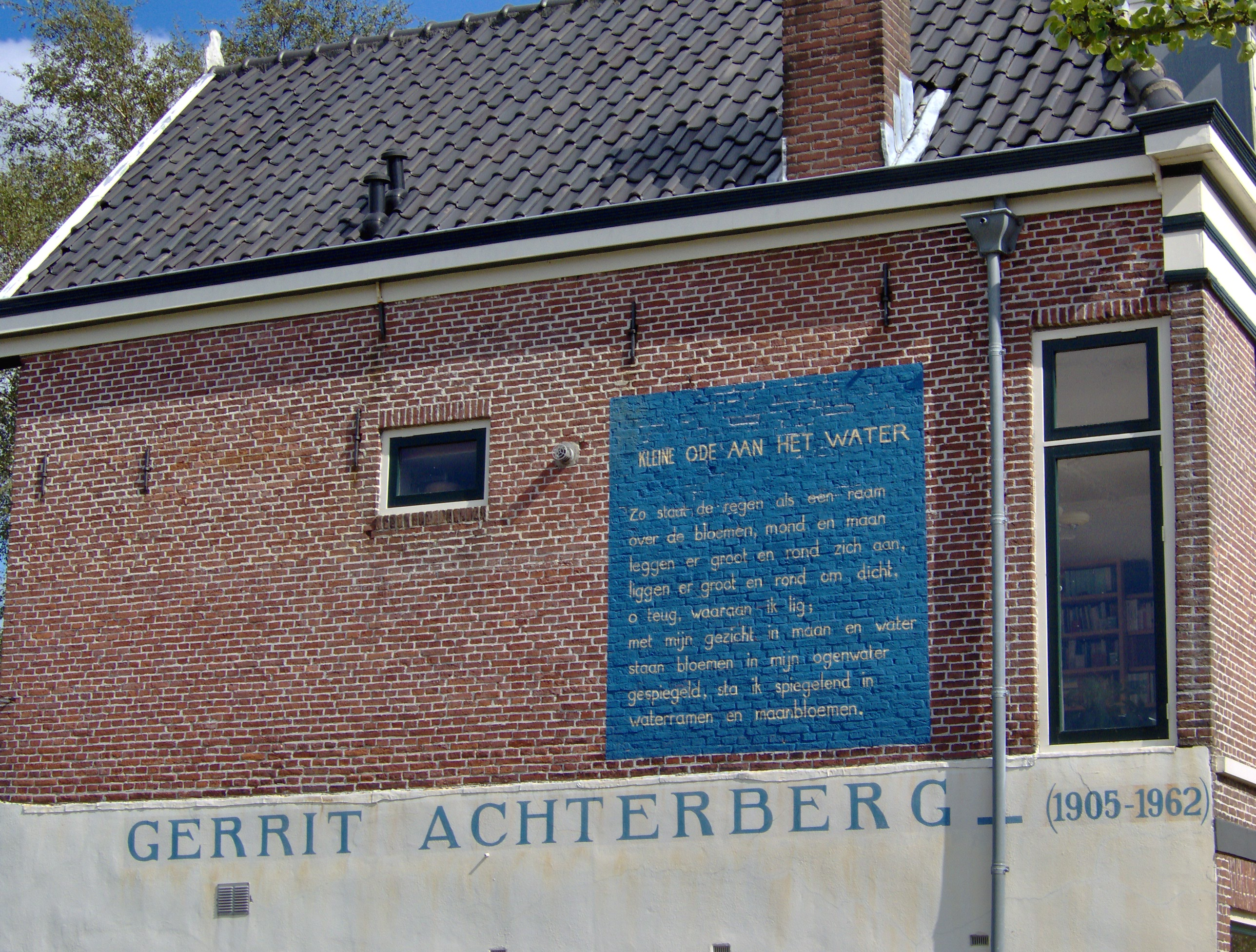 The poet Kleine ode aan het water (A little oath to the water) of the Dutch poet Gerrit Achterberg on a wall of the building at the Rijnkade 8 in Leiden, The Netherlands